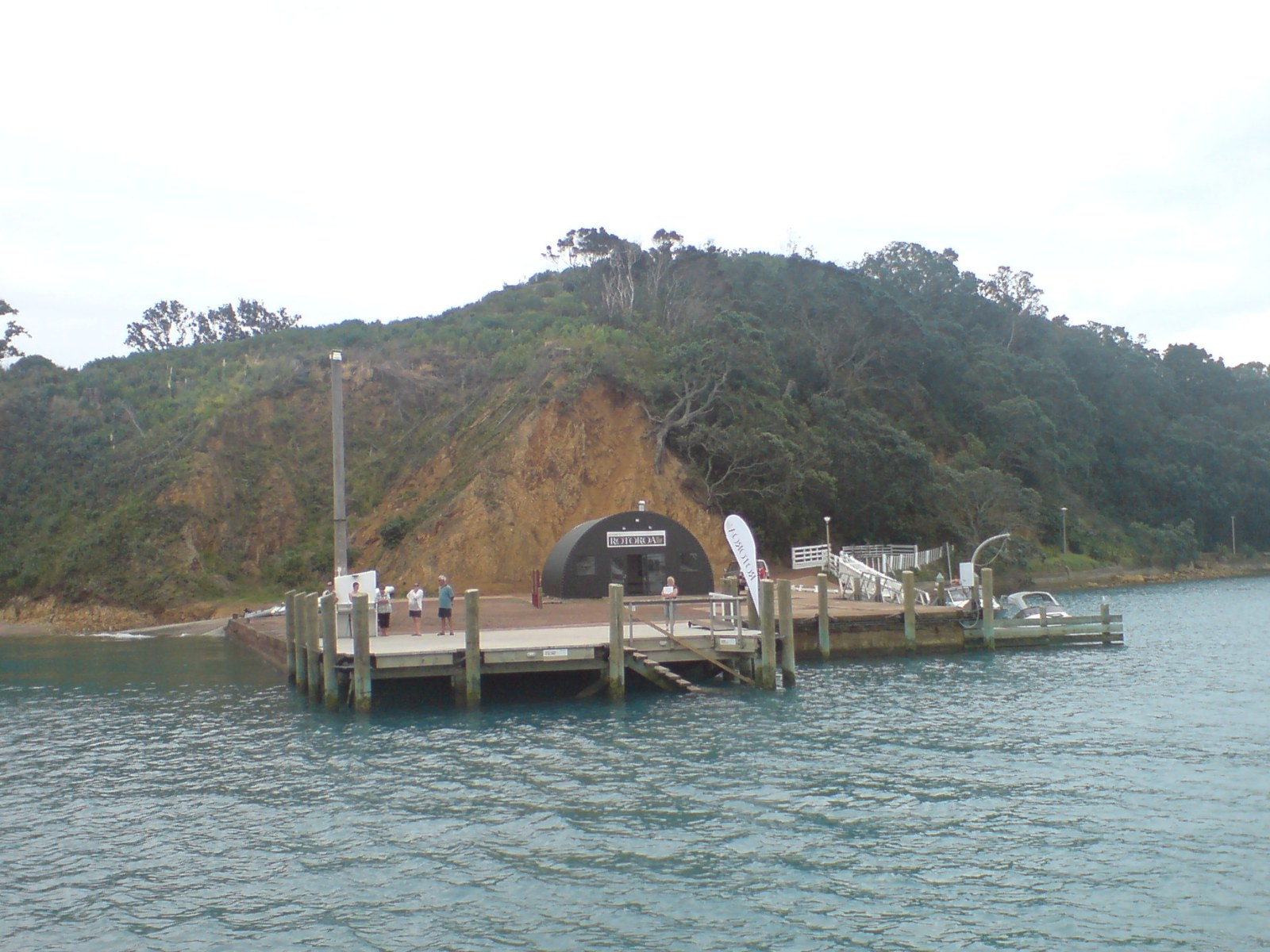 Ferry terminal and shelter at Rotoroa Island in Auckland, New Zealand. Looking roughly north.